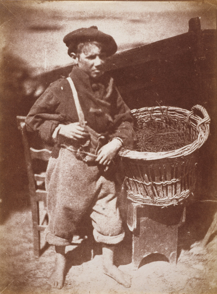 Newhaven boy ('King Fisher' or 'His Faither's Breeks')